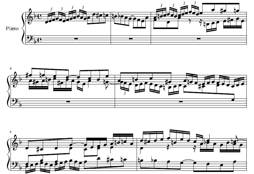 Beginning of Fugue, BWV 875